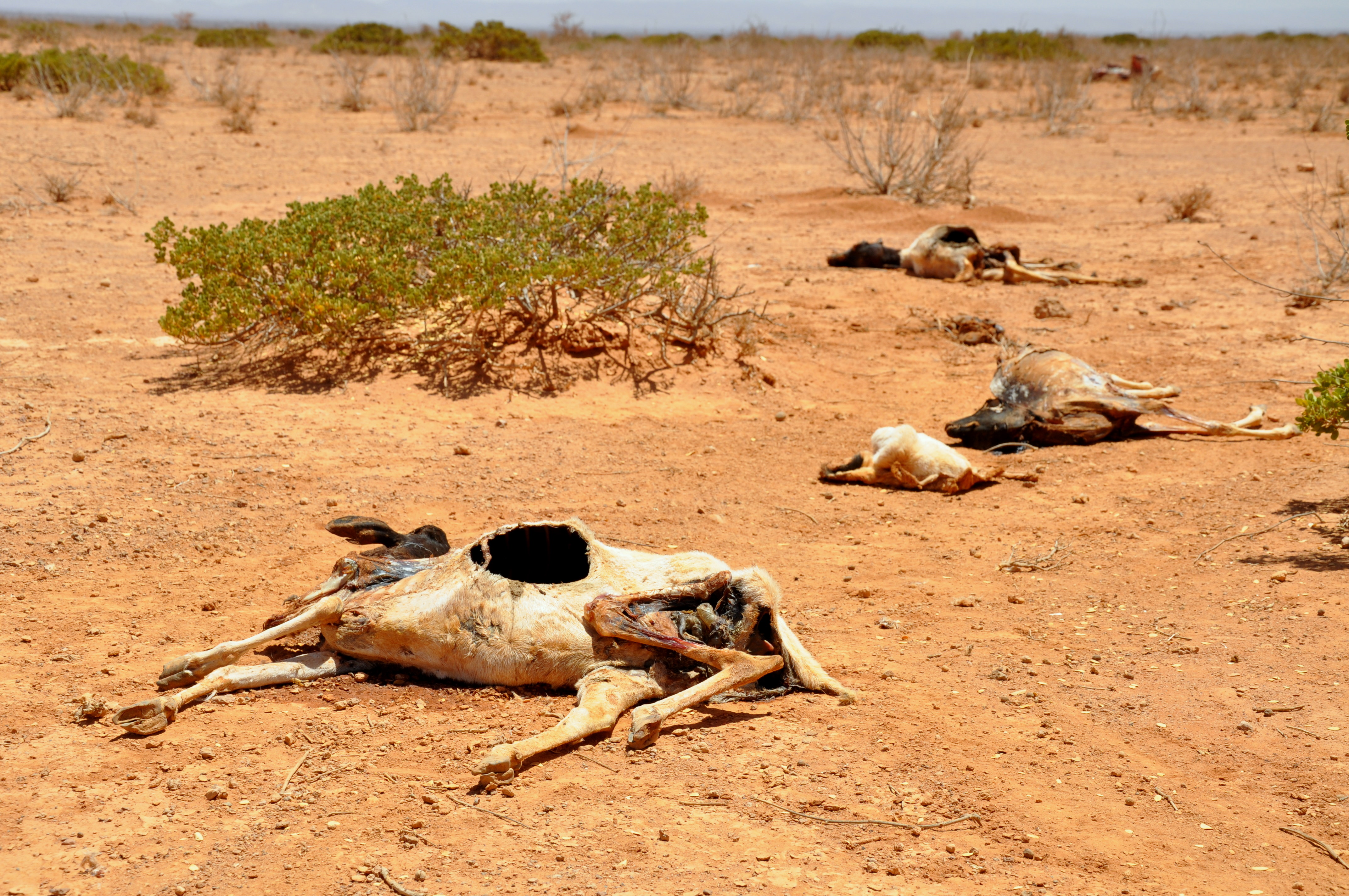 Somaliland. A kilometre outside Waridaad village, carcasses of dead sheep and goats stretch across the landscape